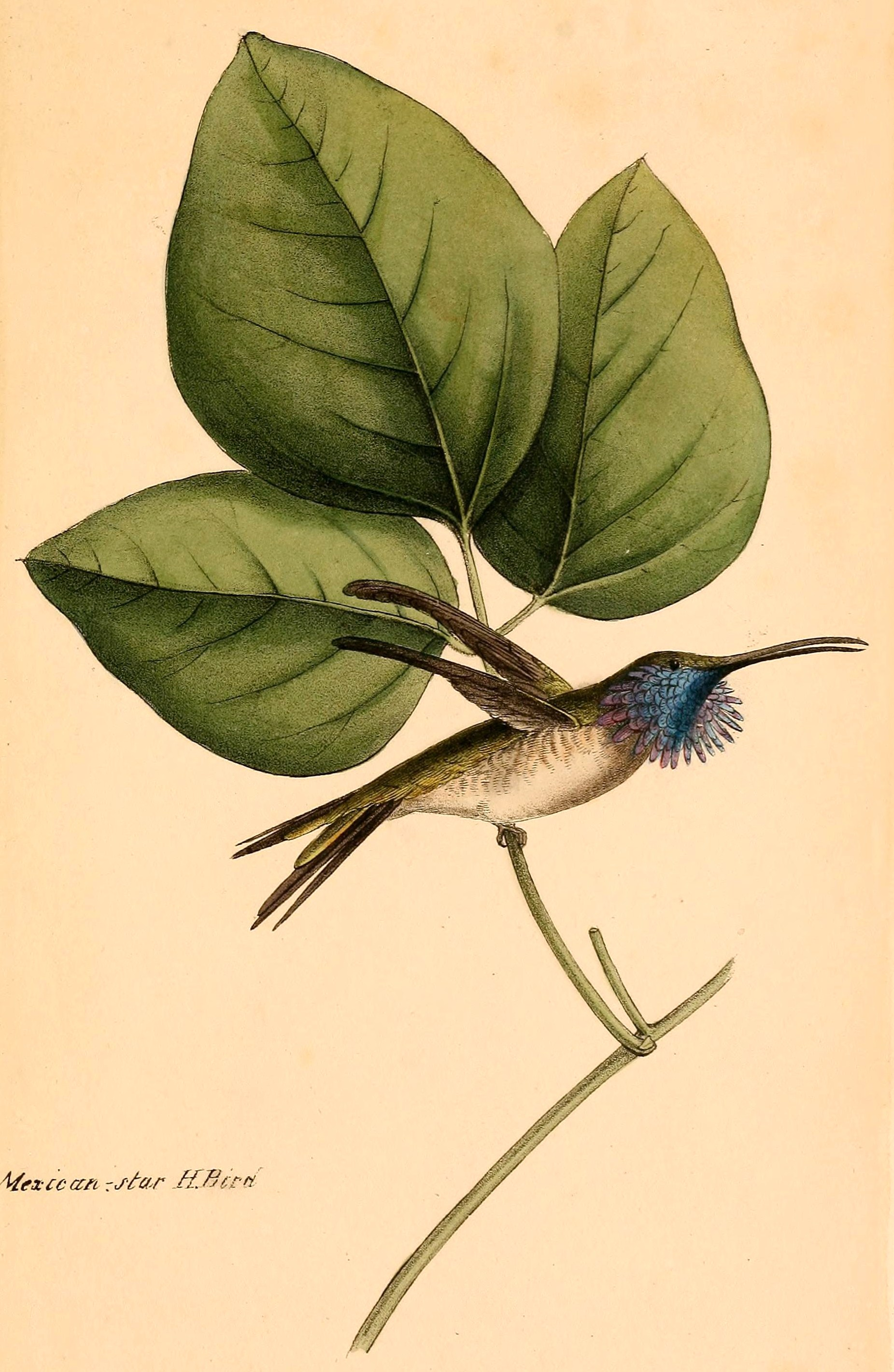 « Trochilus cyanopogon » = Calothorax lucifer (Lucifer Sheartail)